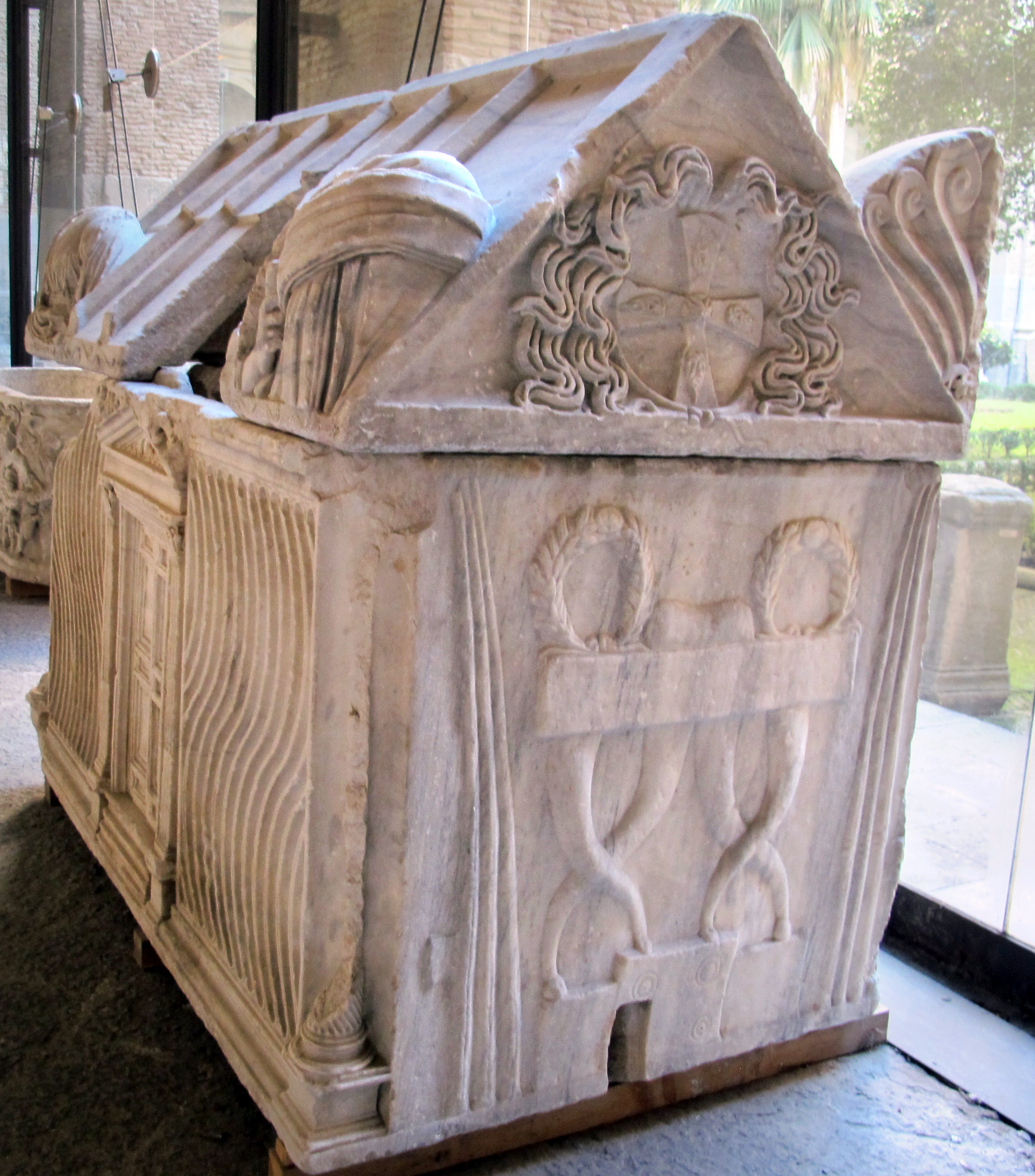 Museo Archeologico (Naples)